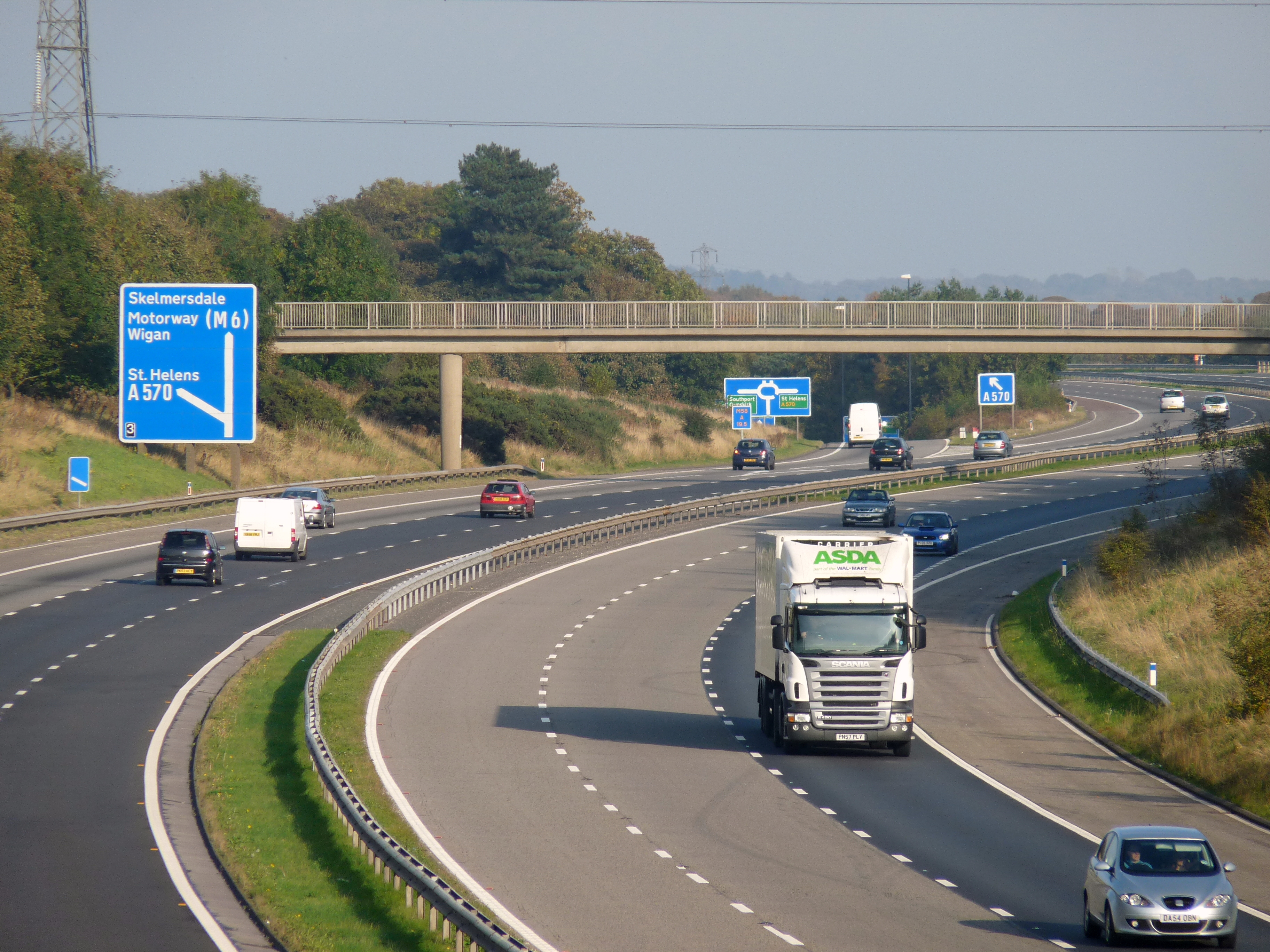 Junction 3 (eastbound exit) of the M58 motorway at Bickerstaffe.